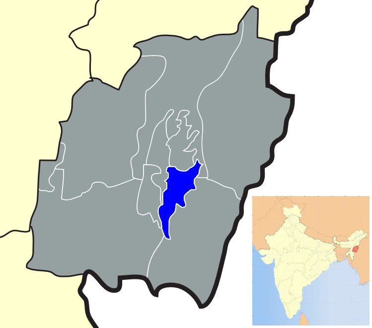 This is a retouched picture, which means that it has been digitally altered from its original version. The original can be viewed here: India Manipur locator map.svg.